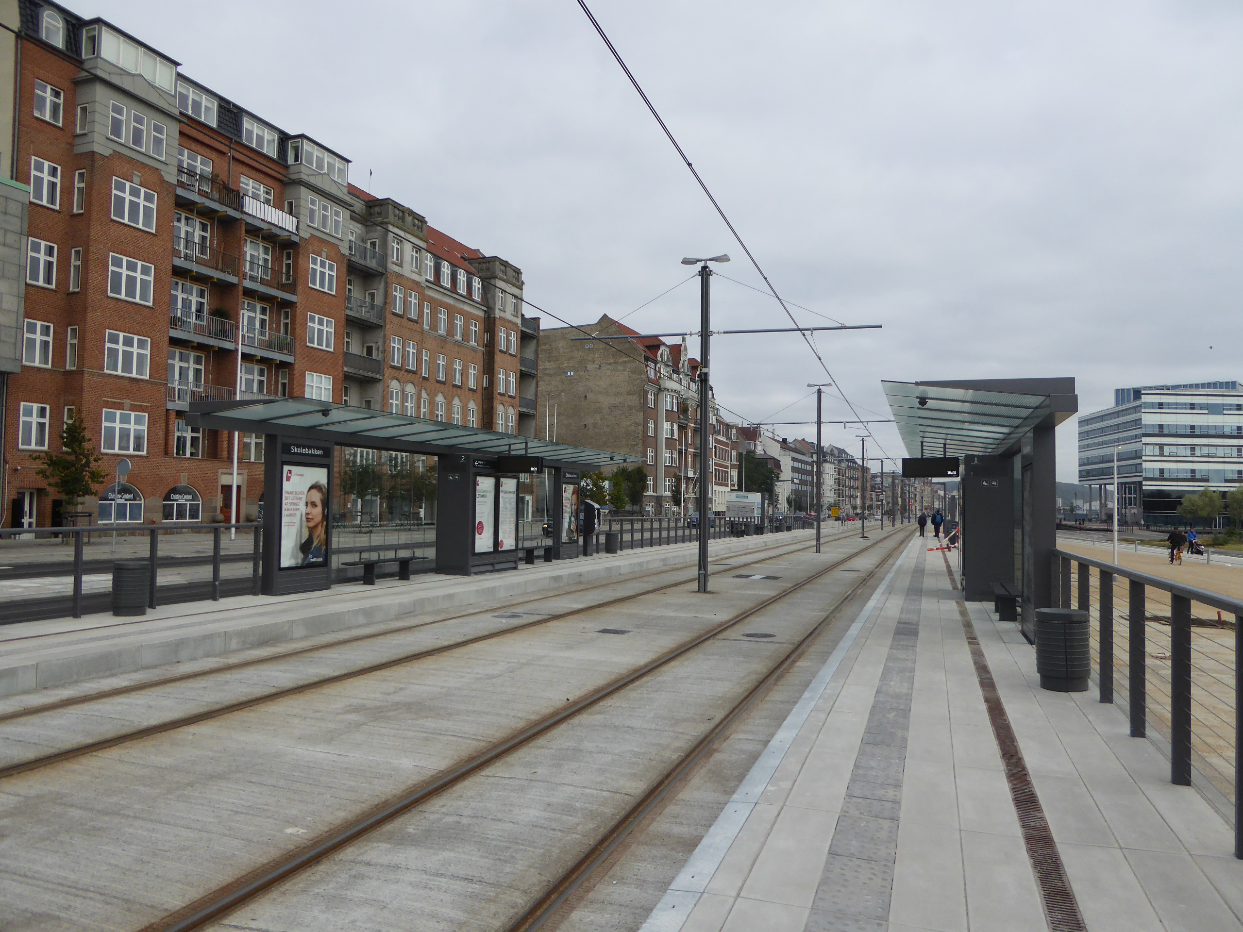 Skolebakken Station, a tramway station of Aarhus Letbane in Denmark.